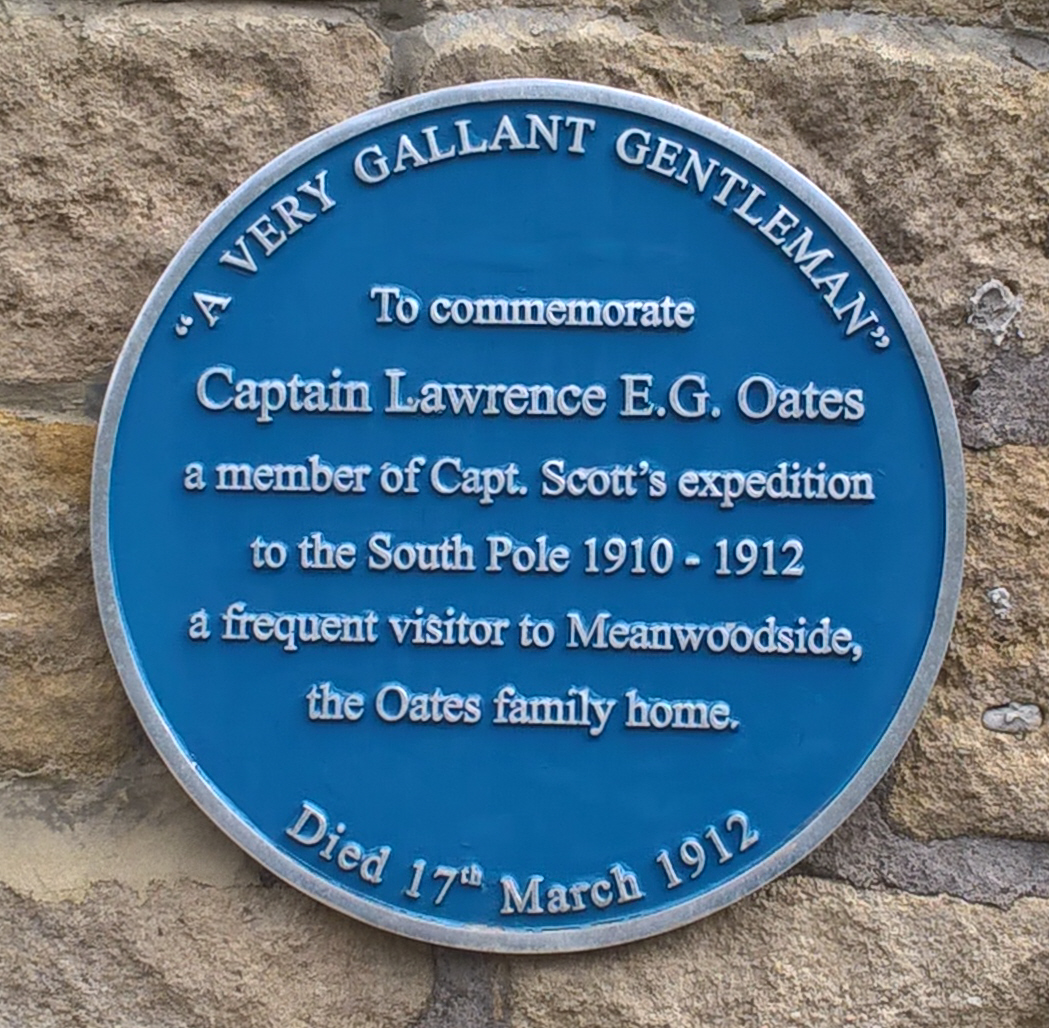 Blue plaque commemorating Lawrence Oates in Meanwood Park, Leeds.